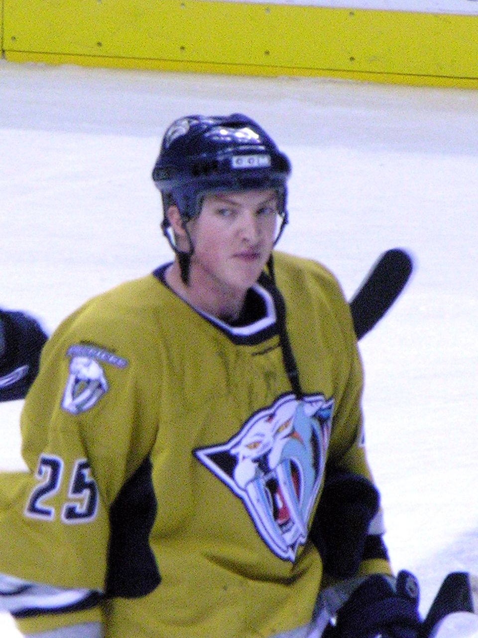 Jerred Smithson, ice hockey player, playing for the Nashville Predators